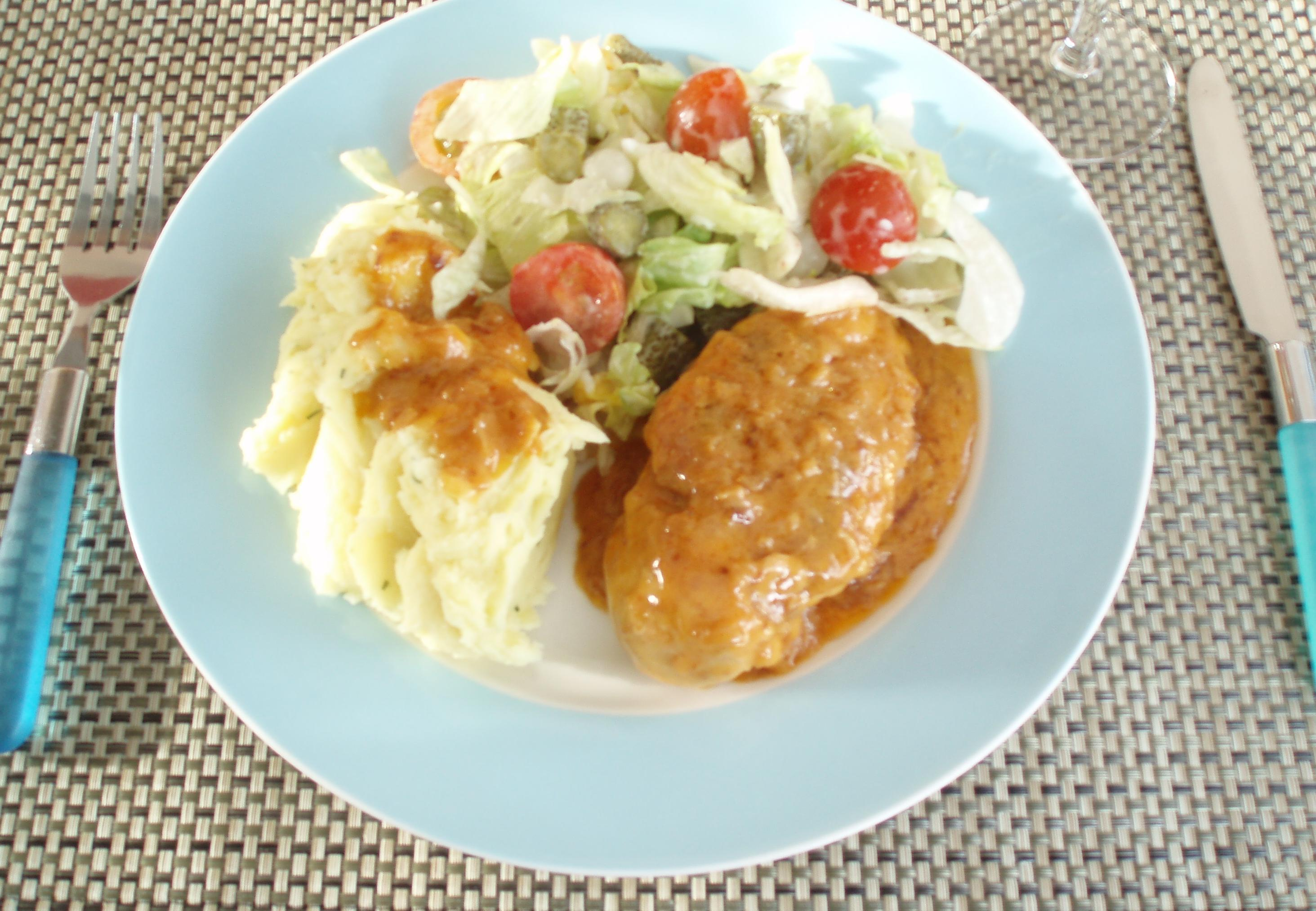 Mashed potatoes with chicken in white wine sauce and Dutch salad.